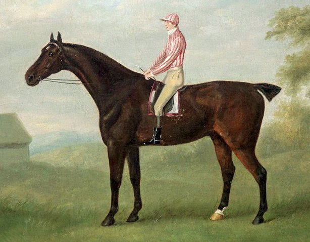 Sir Charles Bunbury's Thoroughbred racehorse "Smolensko" ridden by jockey Tom Goodisson. Smolensko won the Epsom Derby in 1813.